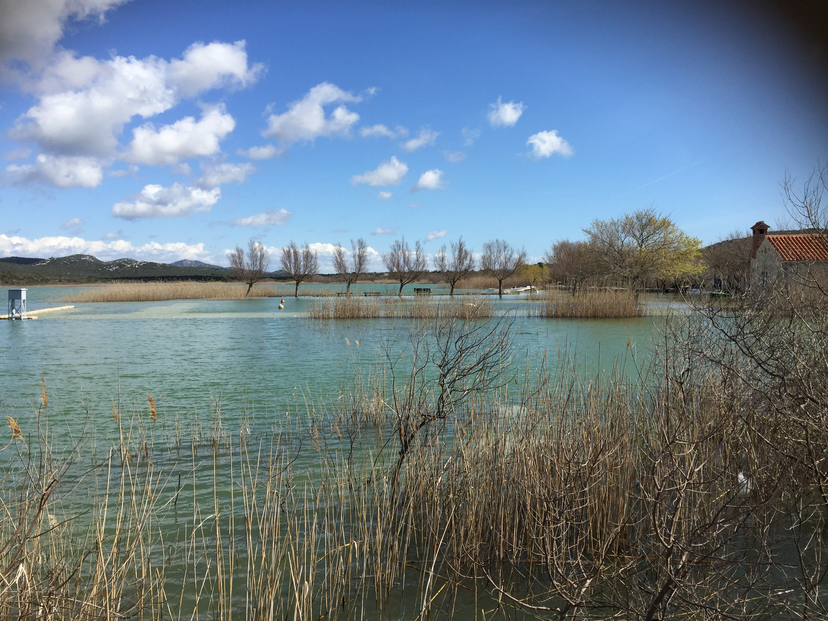 Due to heavy rainfall in march 2018 the water in Vransko lake was so high, the harbour and coast at Prosika were under water.